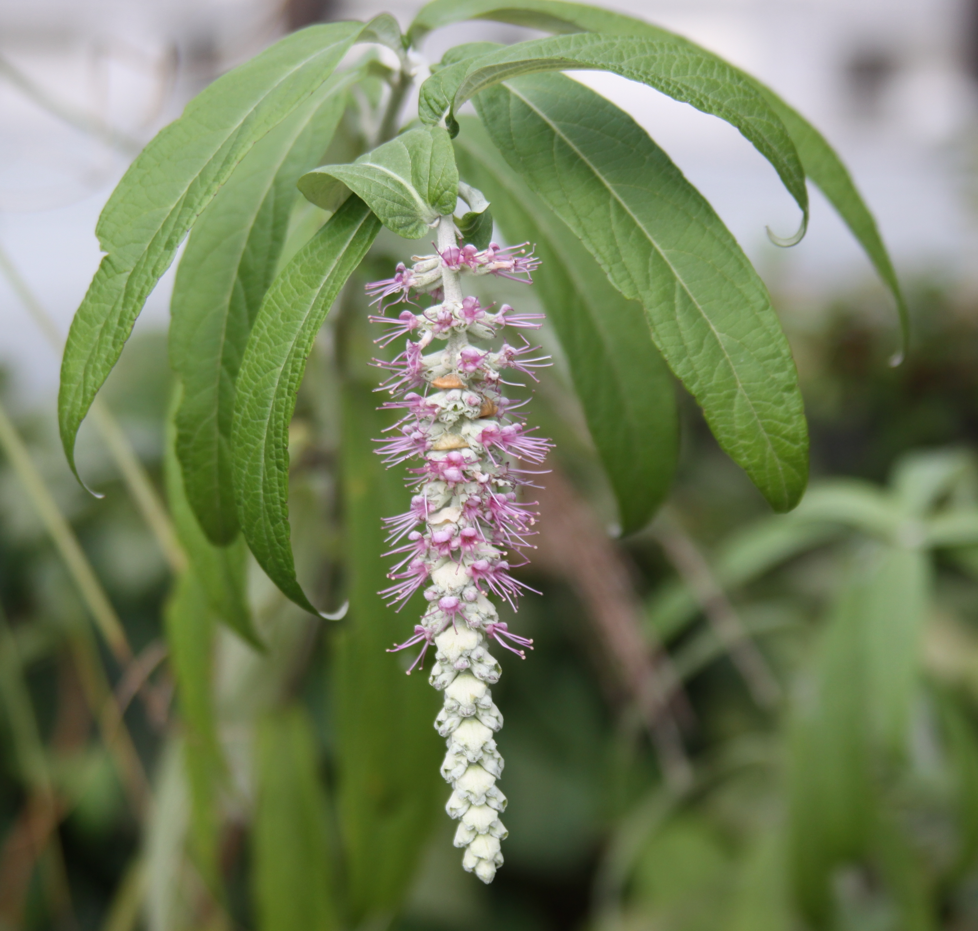 National Arboretum